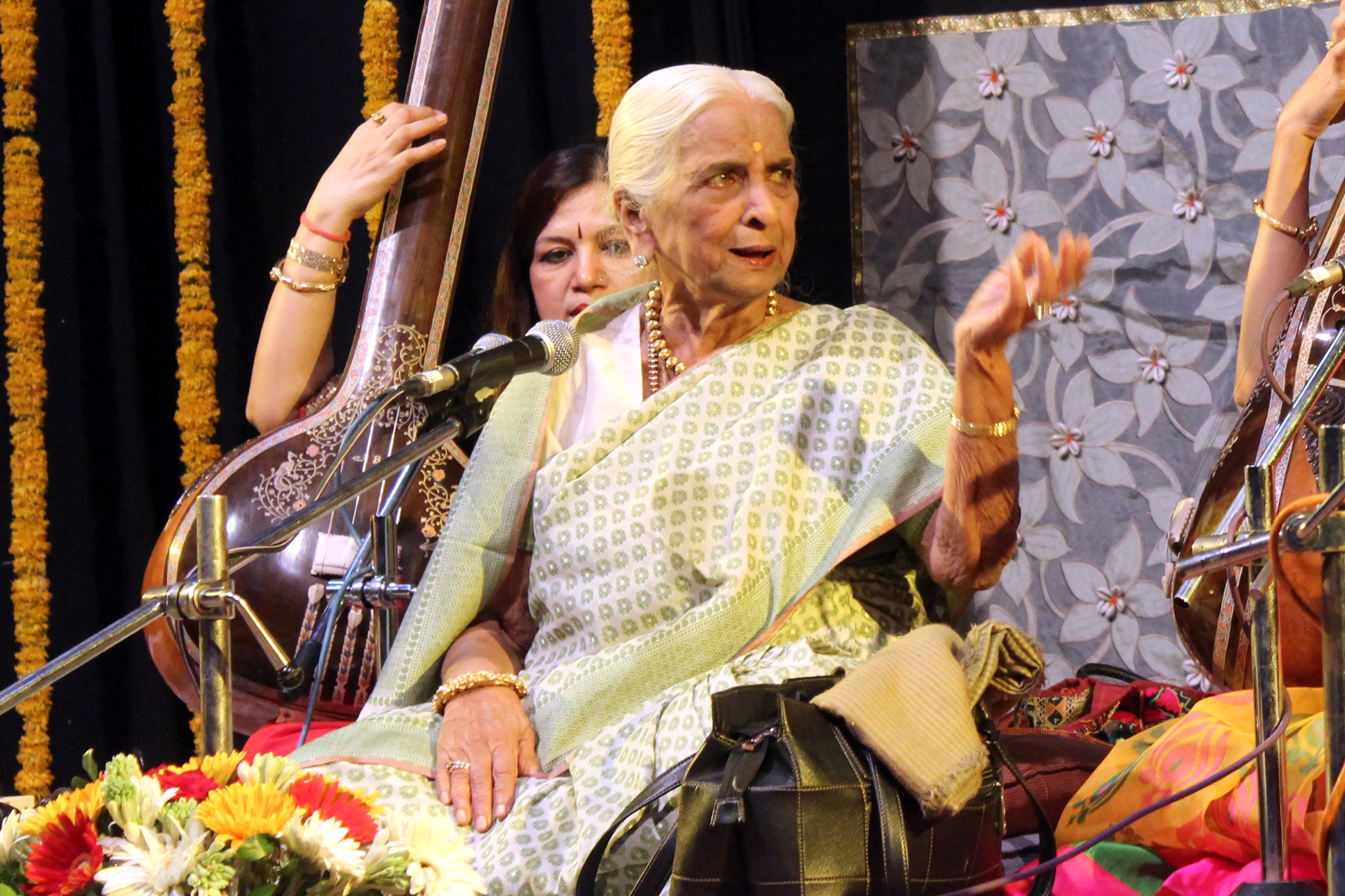 Girija Devi Performing at Bharat_Bhavan Bhopal in July 2015 in a program - Uttar Pradesh Mahotsav